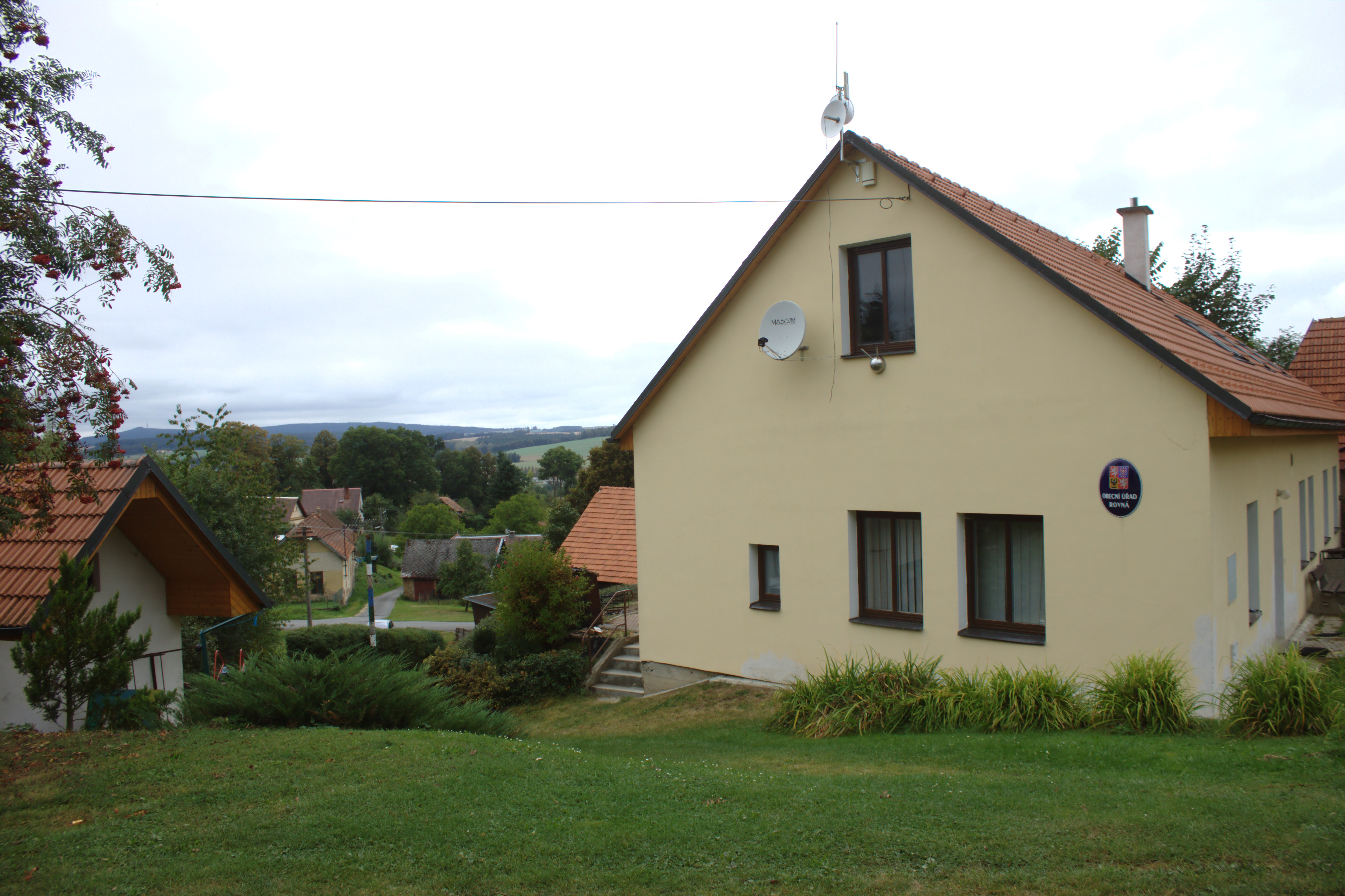 Town hall in the village of Rovná, Vysočina Region, CZ